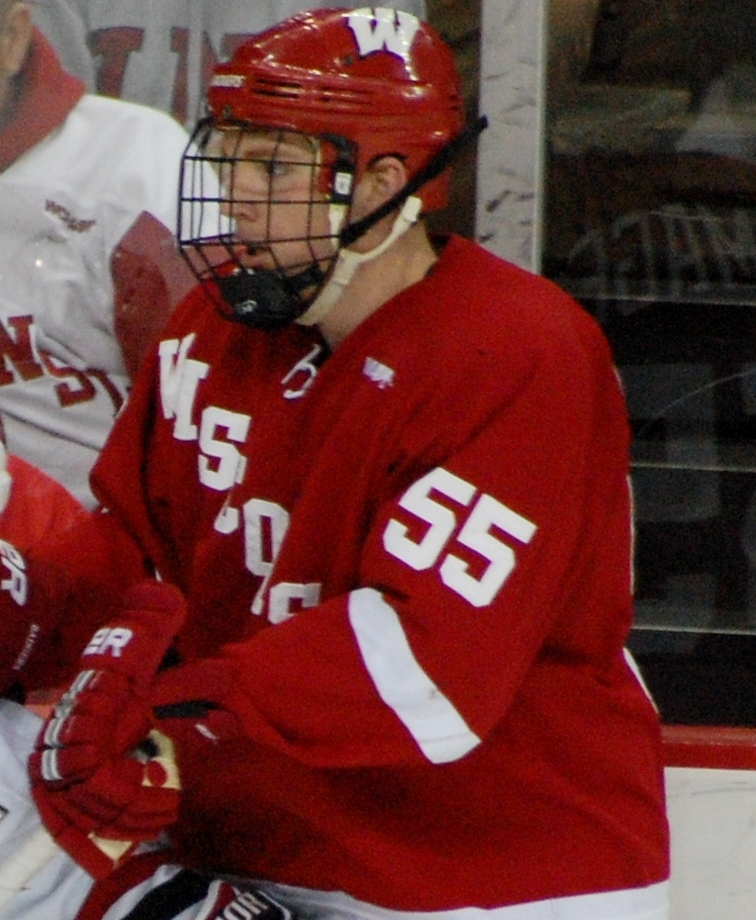 UNO's Rich Purslow getting all up in John Ramage's business